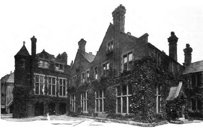 Photograph of Toynbee Hall circa 1902, one of the first settlement houses of the settlement movement.